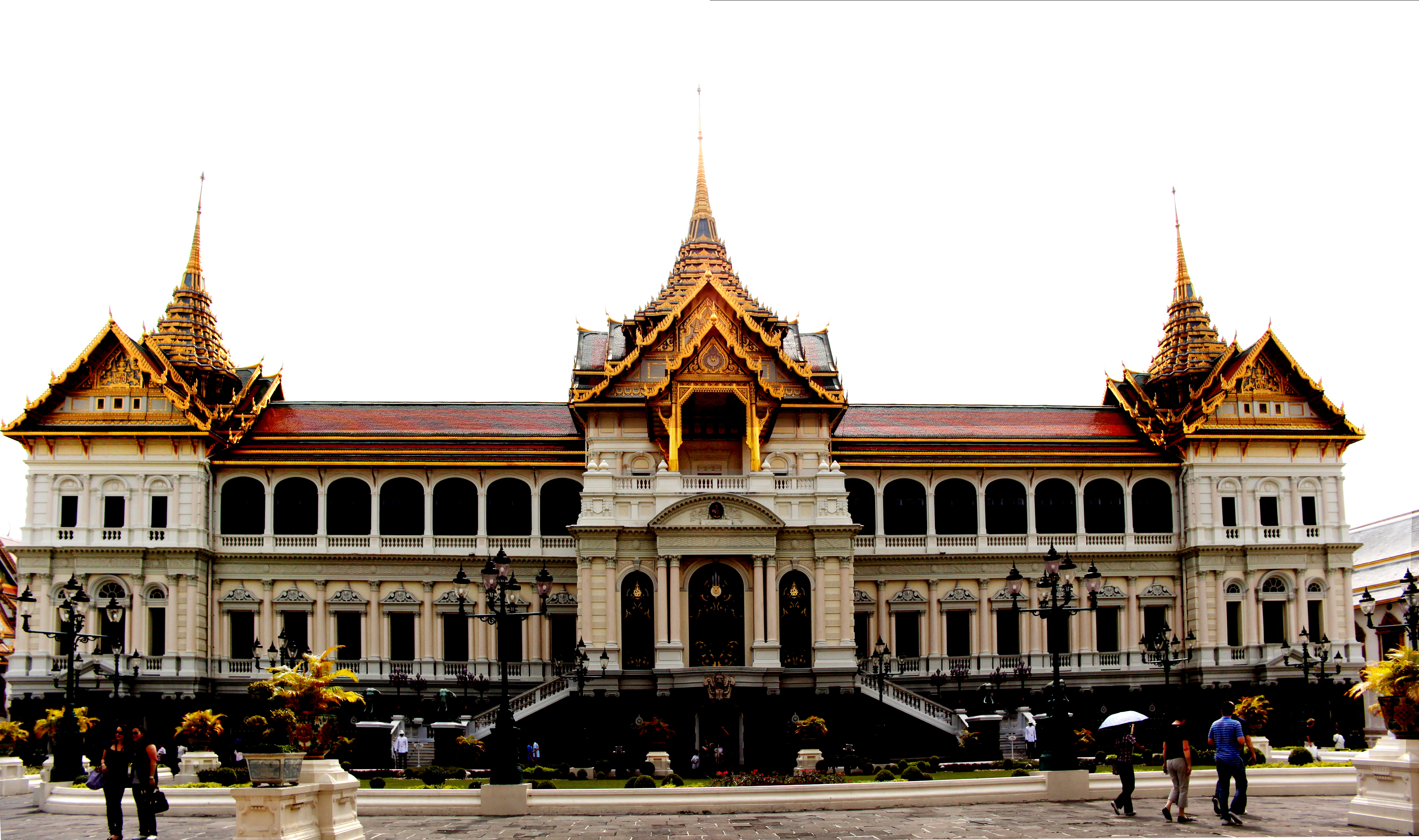 Grand Palace in Bangkok